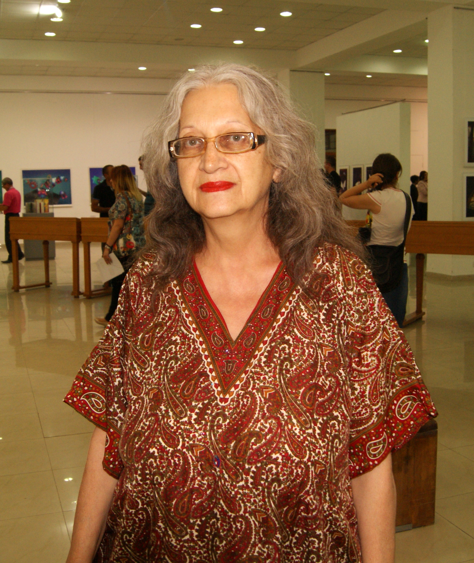 Ադա Վասիլի Գավրիլովա